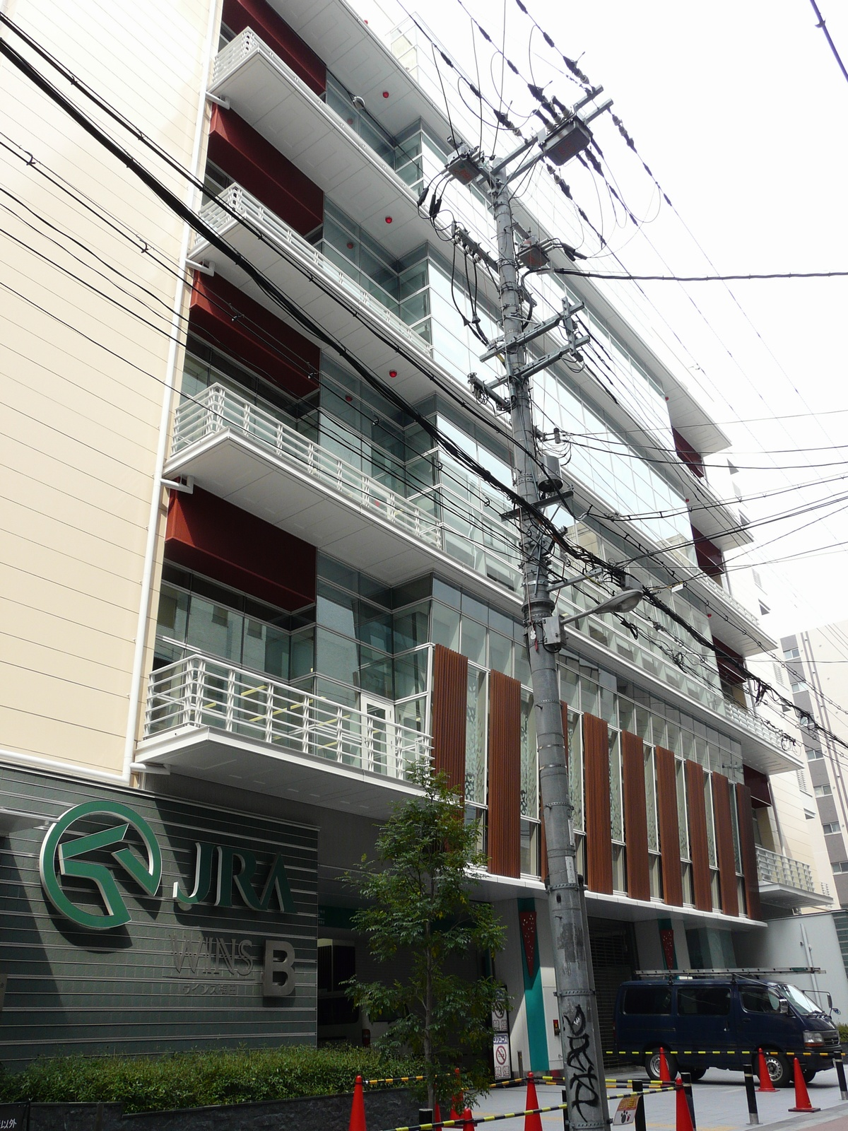 WINS-Umeda-2